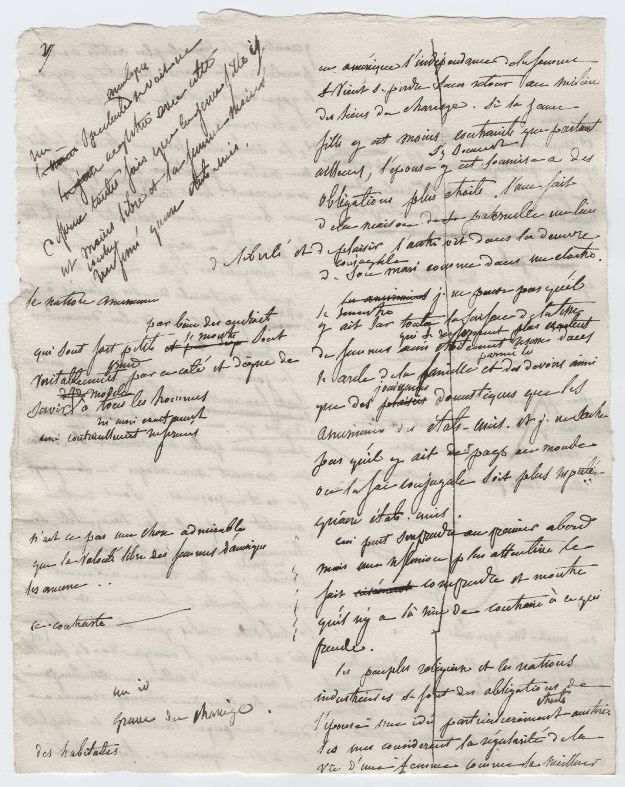 Page from the original working manuscript of 'Democracy in America,' Chapter 44, page 2, written by the French author and traveler Alexis de Tocqueville. Courtesy of the Beinecke Rare Book & Manuscript Library, Yale University.